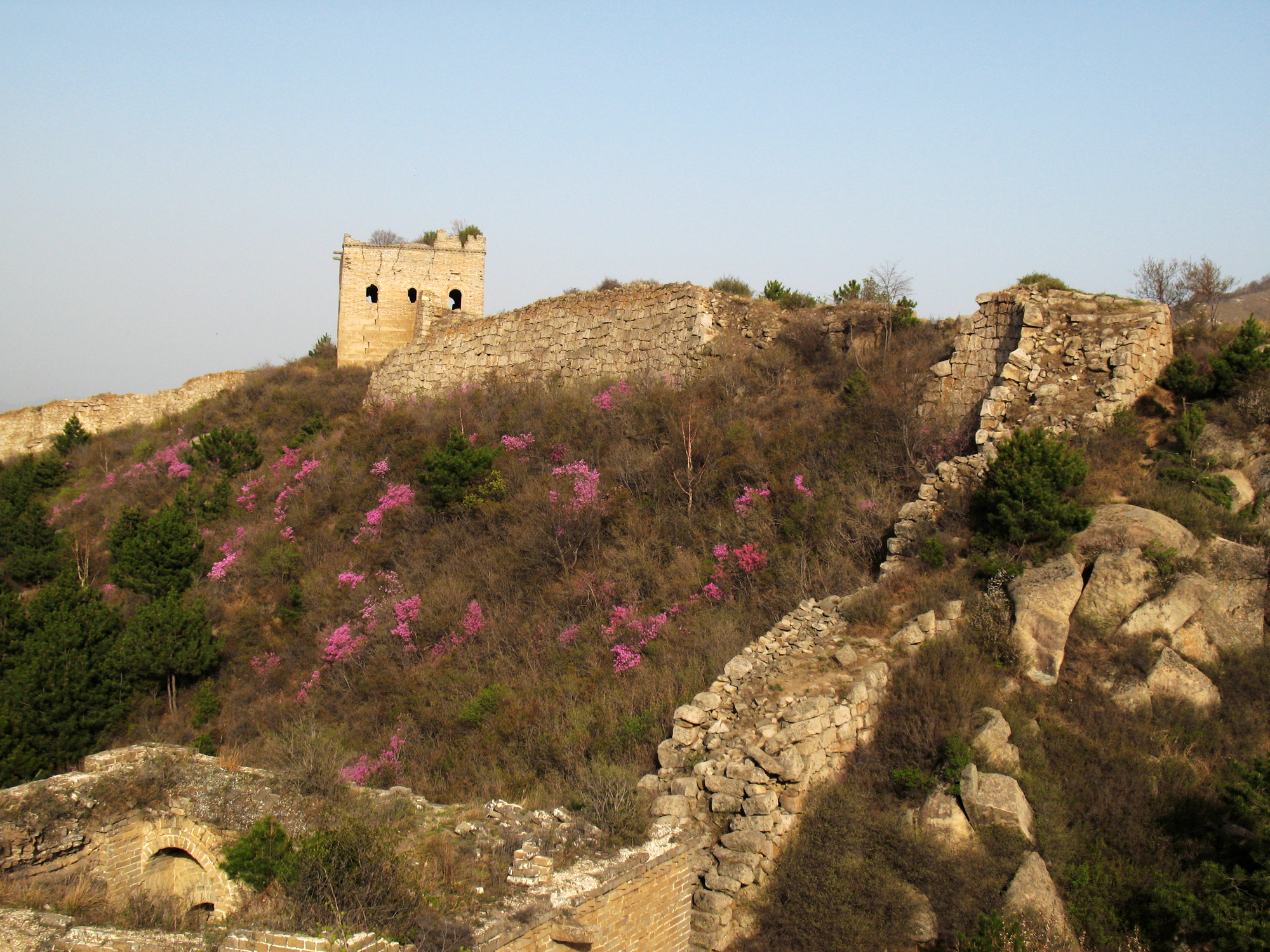 Baishi Mountain, Baoding, Hebei Province